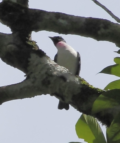 Purple-throated cotinga (male) at Apiacás - MT - Brazil